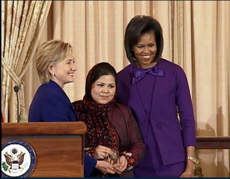 Mar. 11, 2009: Secretary of State Hillary Rodham Clinton hosted the 3rd annual International Women of Courage Awards ceremony with guest speaker First Lady Michelle Obama in the Ben Franklin Room at the State Department.